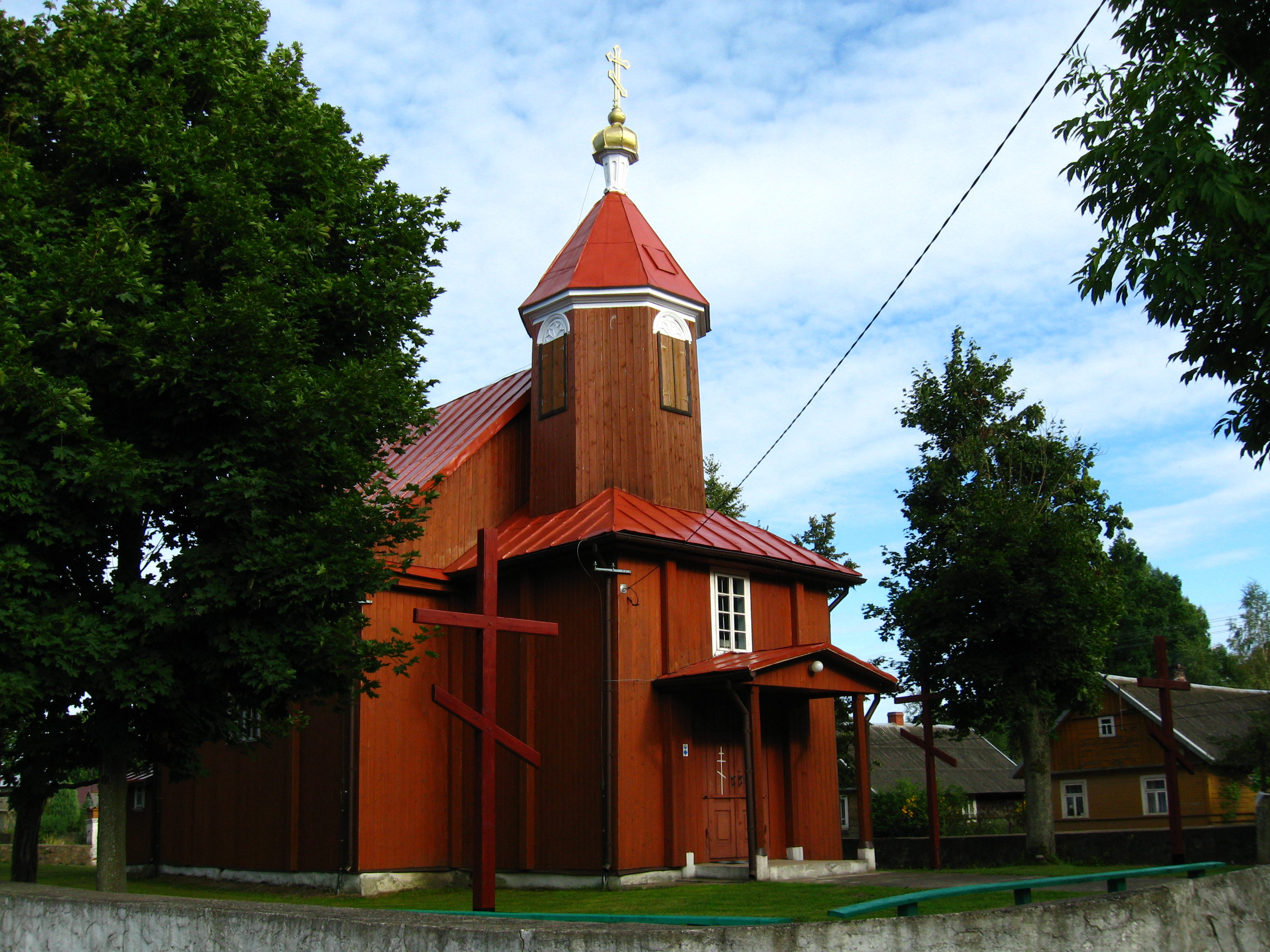 Renovated in summer of 2009, cerkiew of Transfiguration of Jesus Christ at Topolany village — gmina Michałowo